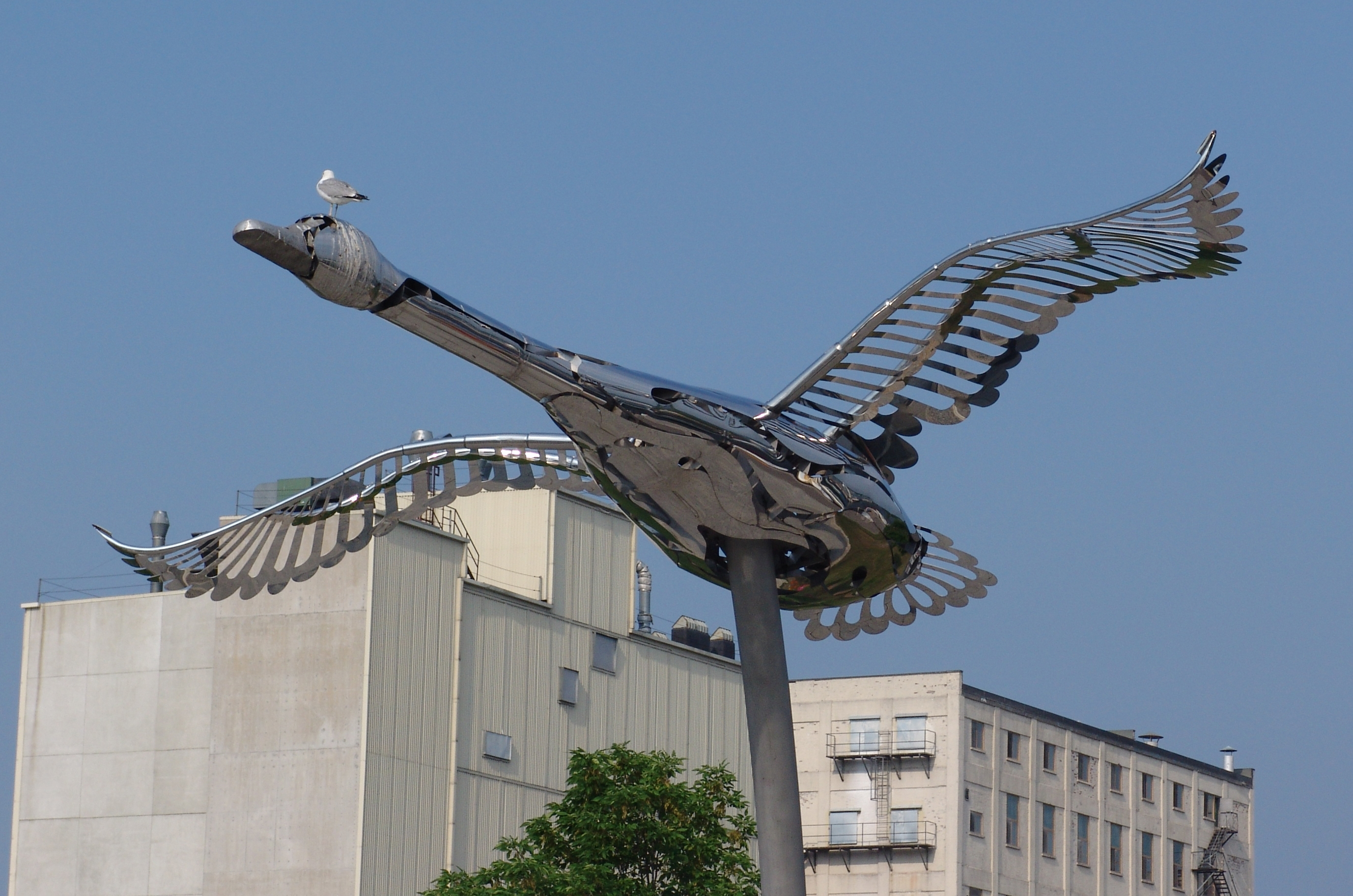 Statue of a trumpeter swan in Midland, Ontario. Photographed by Adam Quinan, July 2006.